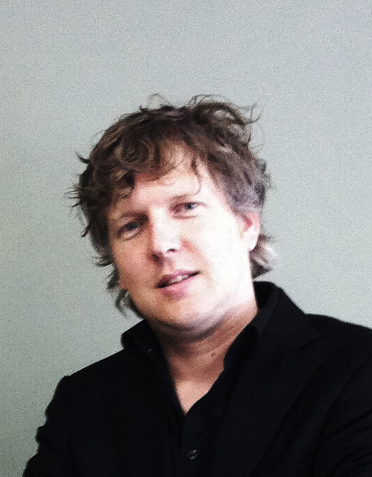 Born 1971 Ntionality Dutch